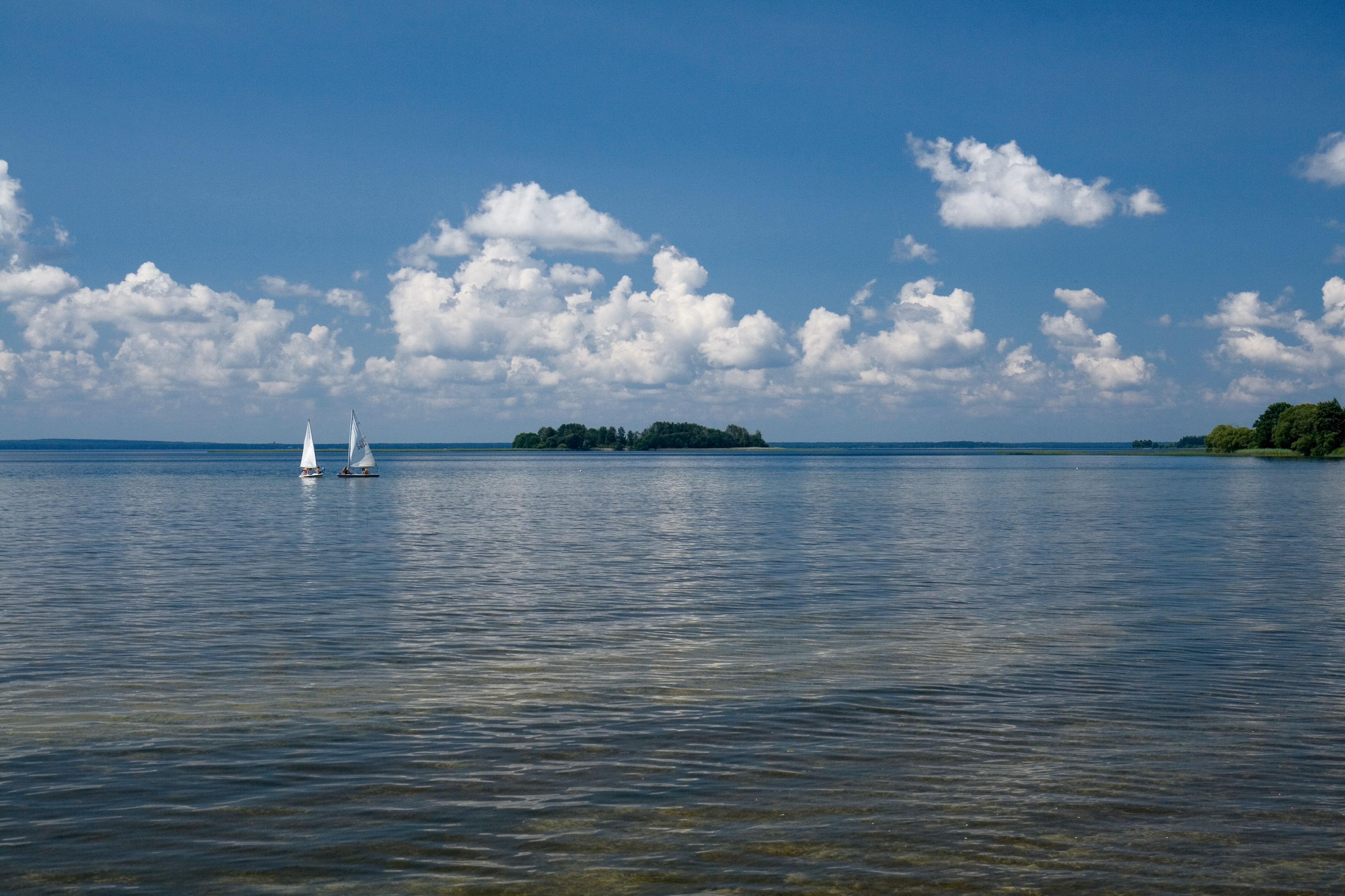 Lake Narach (Narač), Belarus. Беларуская (тарашкевіца): Возера Нарач, Беларусь.